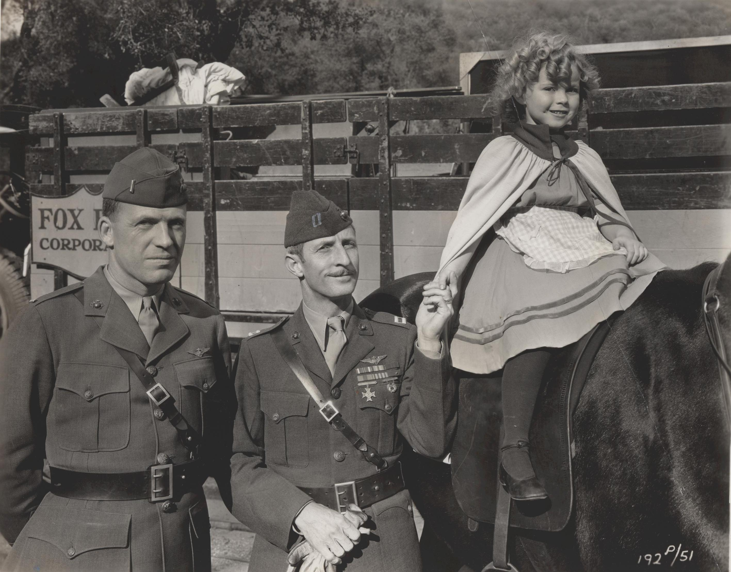 "Devil Dogs of the Air Greet Star of "The Little Colonel": Captain Hayne Boyden, of the U.S. Marine Corps, pays a visit to little Shirley Temple on location while the five year old star is engaged in making of the new picture, "The Little Colonel," in which she stars with Lionel Barrymore. Captain Boyden is shown holding hands with the tiny star, who is seated on the horse of her screen-play grandfather. With Captain Boyden is Lieut. Zeke Bailey. The two came to Santa Monica to fly back to Quantico, Virginia, a new amphibian plane just made by the Douglas plant. The two officers were eager to meet Shirley and fortunately found that Sidney Blackmer, a cousin of Boyden's was playing in the new picture with Shirley. Capt. Boyden, who is also a cousin of the famous hero of the Merrimac, Richmond Peasson Hobson, was in the air and headed for Virginia base half an hour after this photograph was made. Before leaving, he and Lieut. Bailey circled in the air the location where the child actress was working under the direction of David Butler." From the Horace Mazet Collection (COLL/3176) at the Marine Corps Archives and Special Collections OFFICIAL USMC PHOTOGRAPH